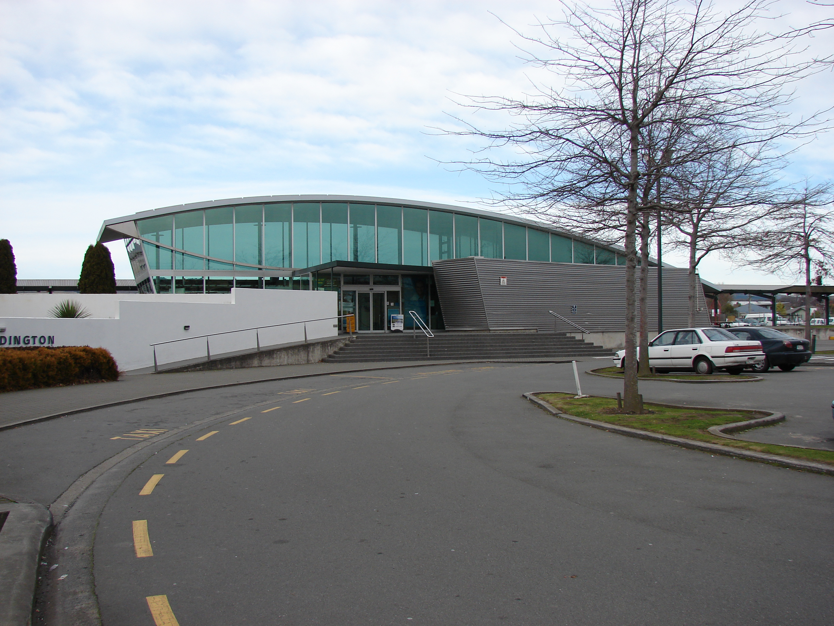 Christchurch railway station building and entrance, from car park. Photographed by Matthew25187 on 2007-07-28.